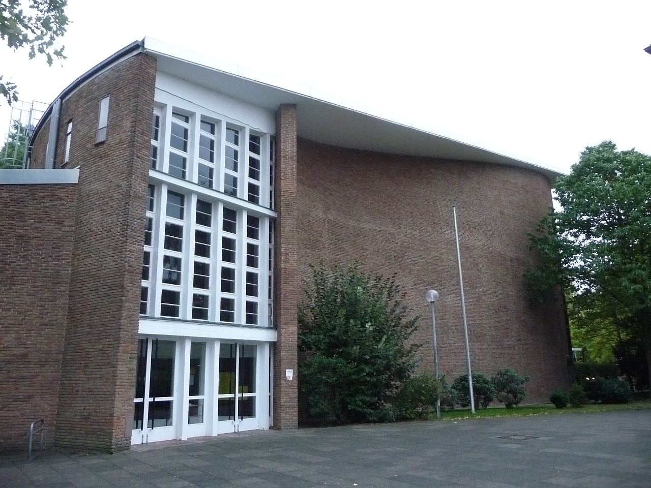 Church St. Hedwig in Bremen-Vahr